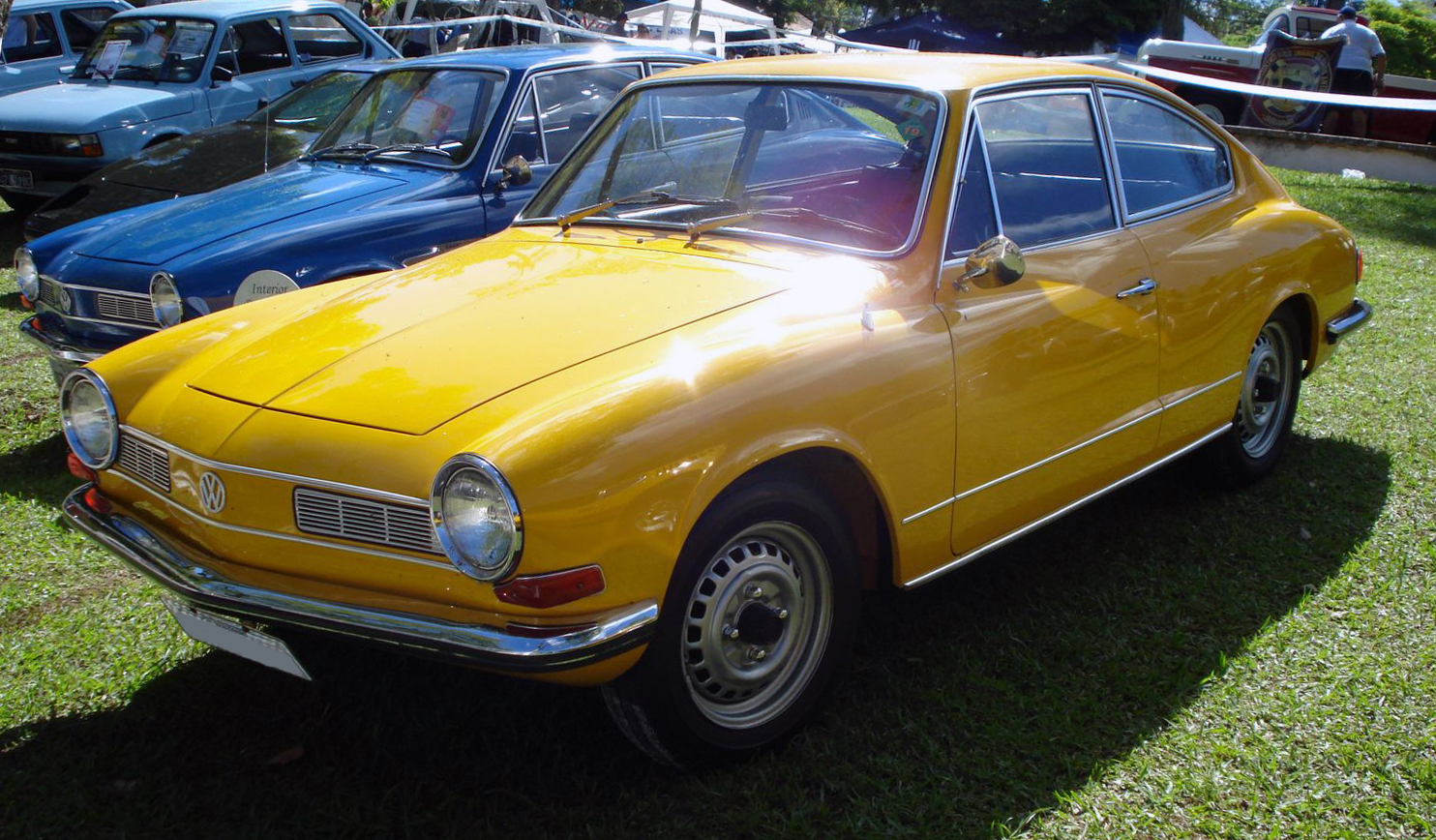 Very yellow Brazilian VW Karmann Ghia TC